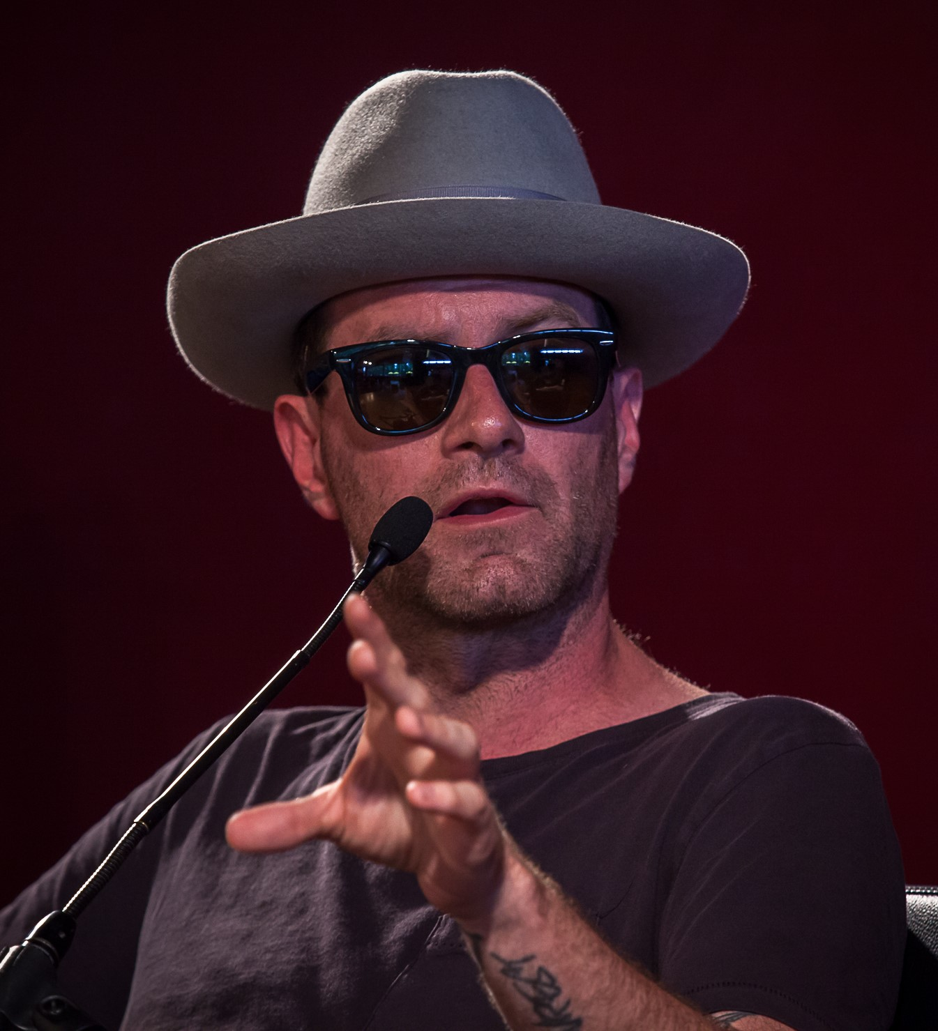 Meltdown Sessions: 20 Years of Club Culture Festival curator James Lavelle and DJ Shadow were part of a panel discussion led by Paul Bradshaw on the legacy of Mo'Wax and its place in club culture over the last 20 years.